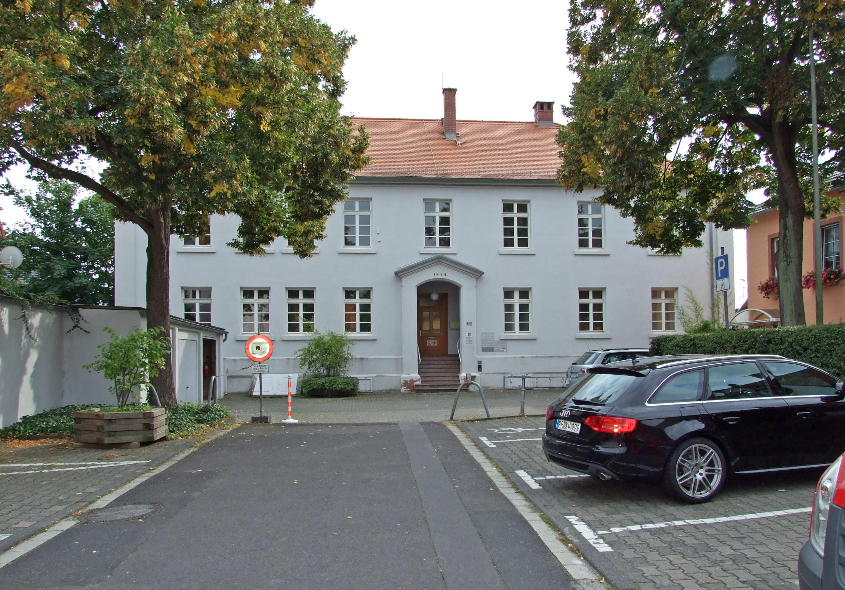 Old school and schoolyard (1844-1957) of Bergen, in Frankfurt Bergen-Enkheim. Now direction of Kulturgesellschaft Bergen-Enkheim and departments of local government.